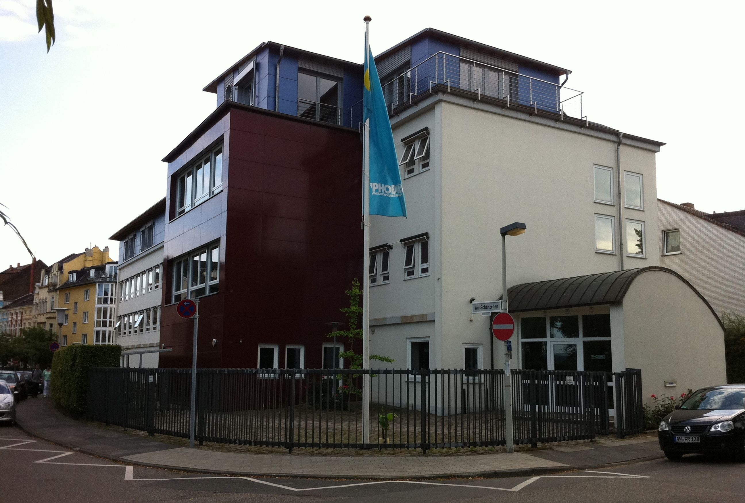 Germany, Bonn: Phoenix Reisen company headquarter. The building was formerly the Danish Embassy.